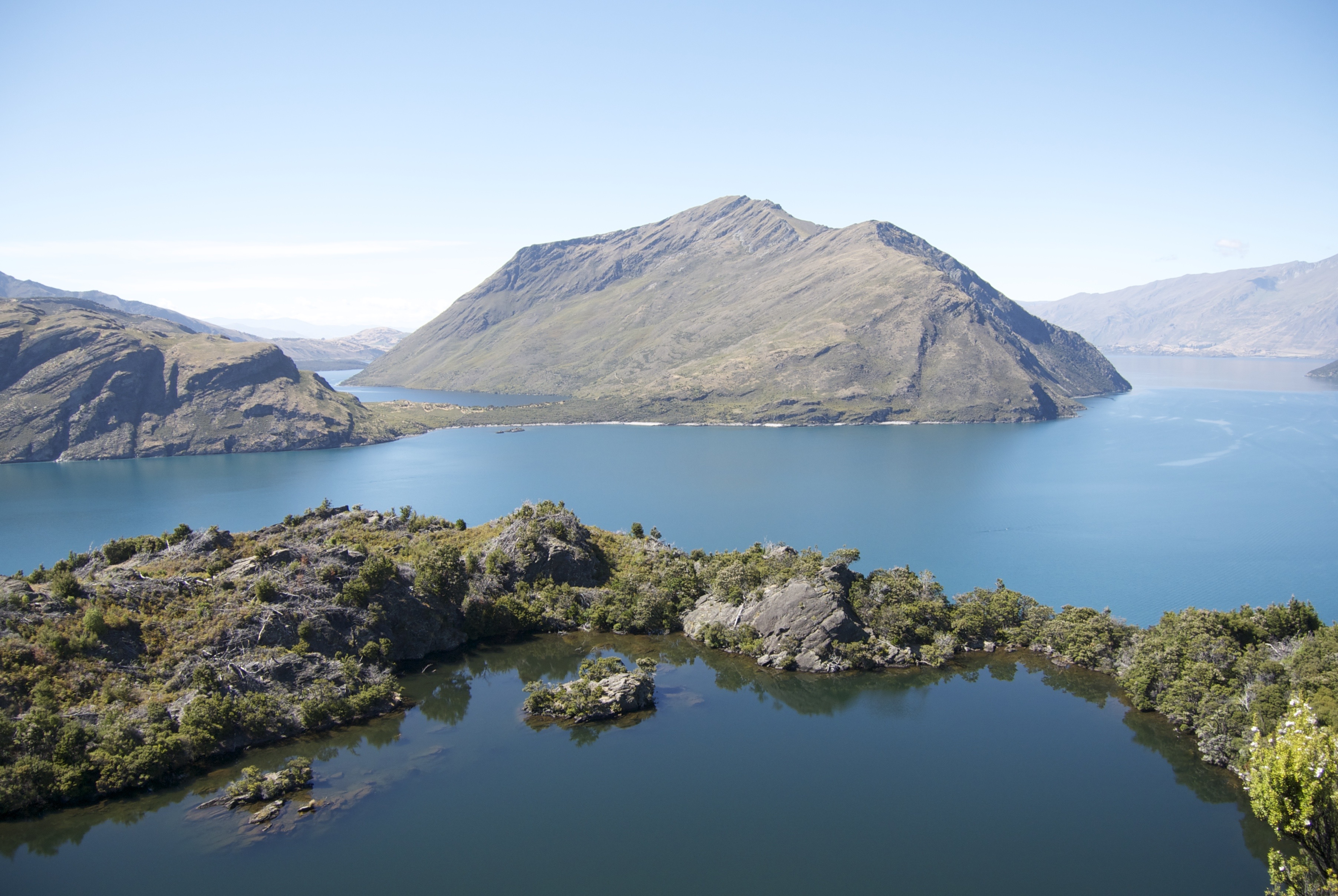 View from the top of Mou Waho, with Arethusa Pool in the foreground. An island (or two) in a lake (Mou Wako Lake) on an island (Mou Waho) in a lake (Lake Wanaka) on an island (South Island, NZ) in the ocean.